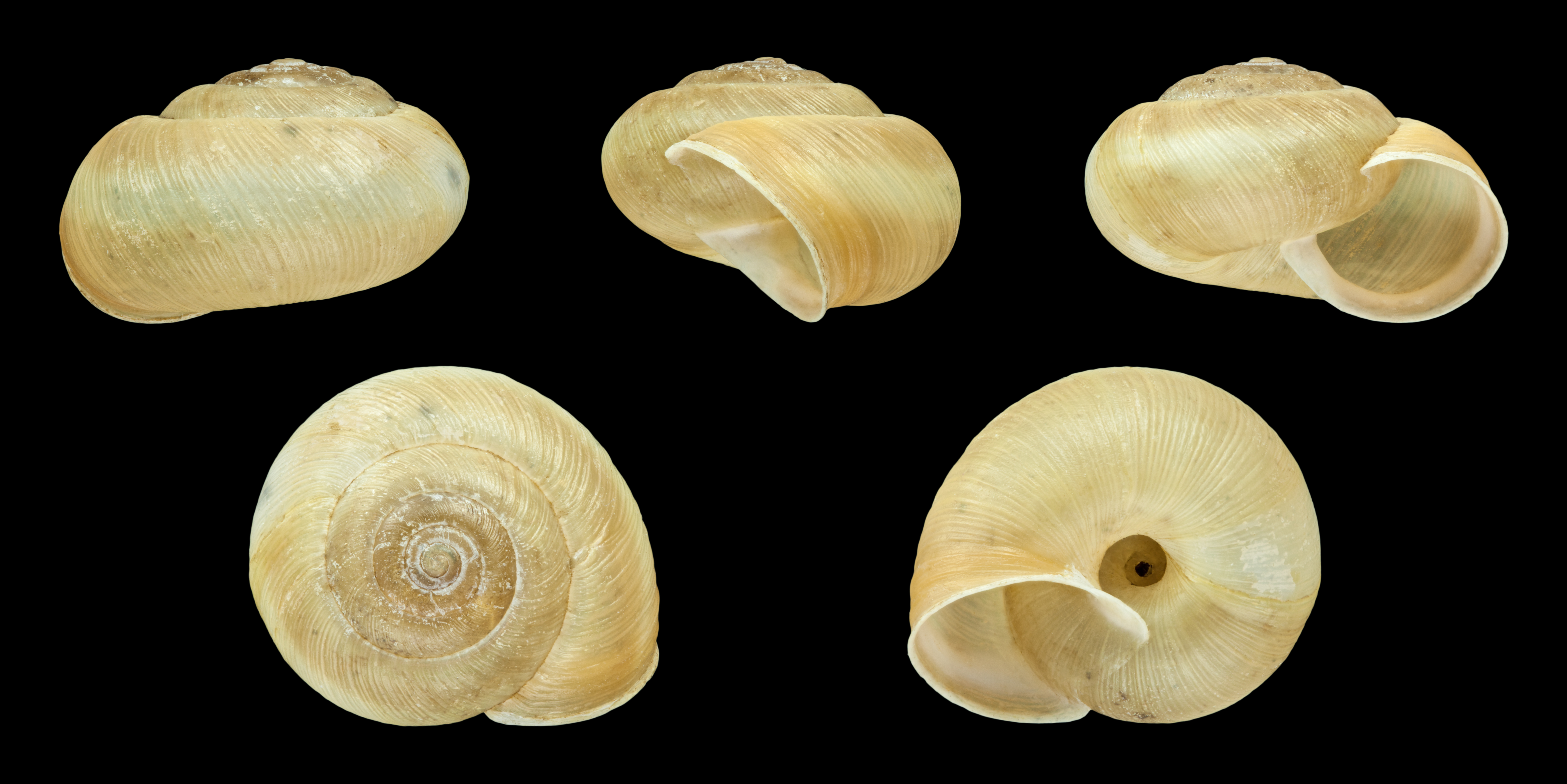 Euomphalia strigella (Draparnaud, 1801); Diameter 1.7 cm; Originating from Riva del Garda, Italy; Shell of own collection, therefore not geocoded.